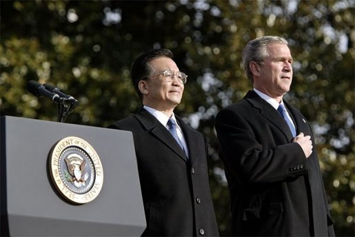 Wen Jiabao and George W. Bush.